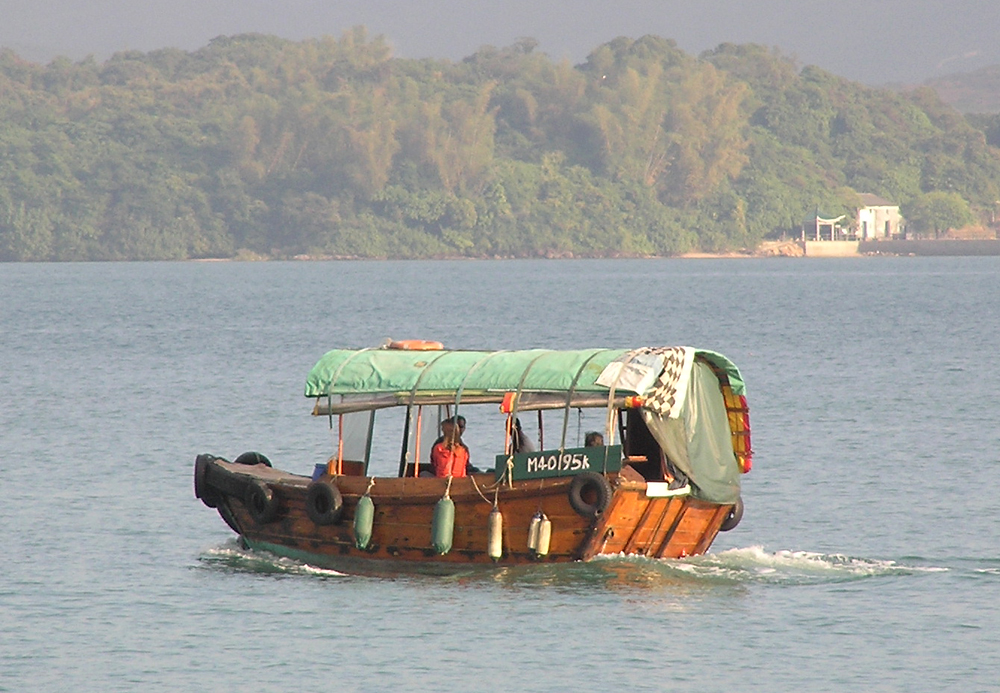 A boat carrying passengers to the out-lying islands off the Sai Kung Peninsula in Hong Kong